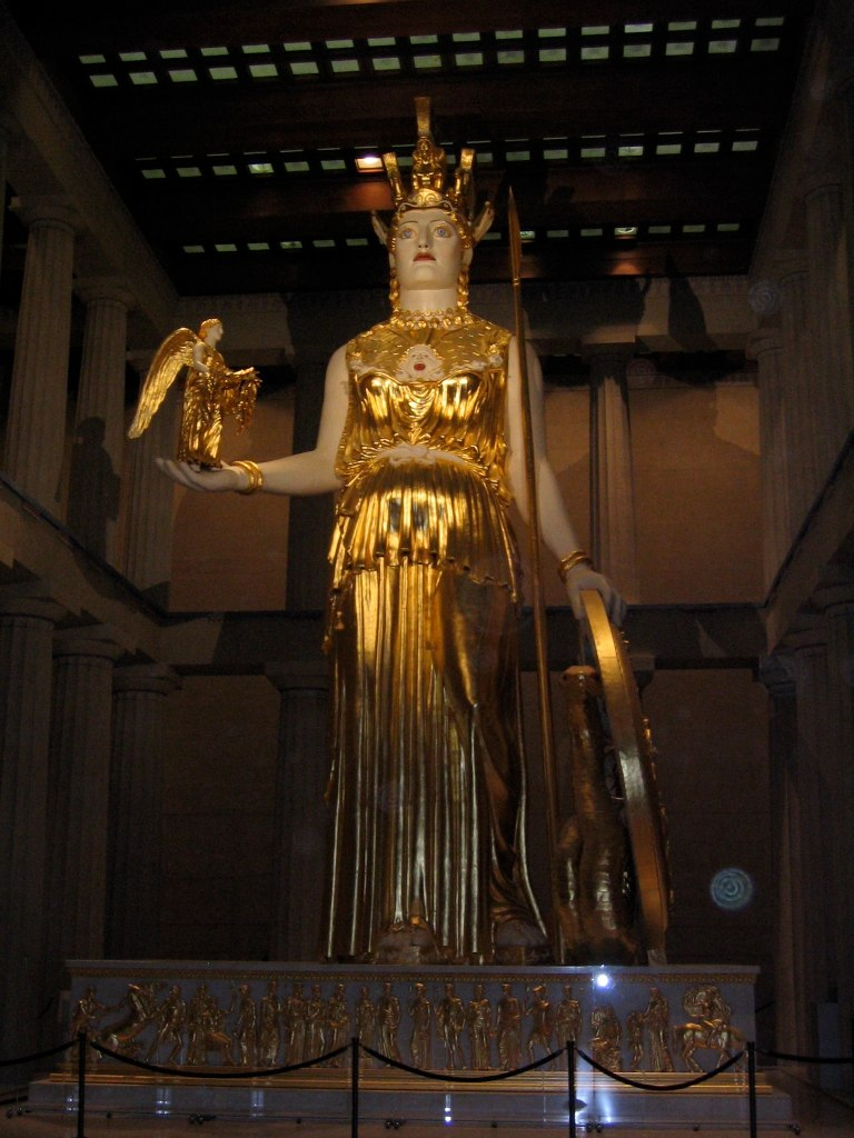 Statue of Athena Parthenos, Nashville Parthenon, Tennessee. Photo by Lucas Livingston, 8 July, 2006.